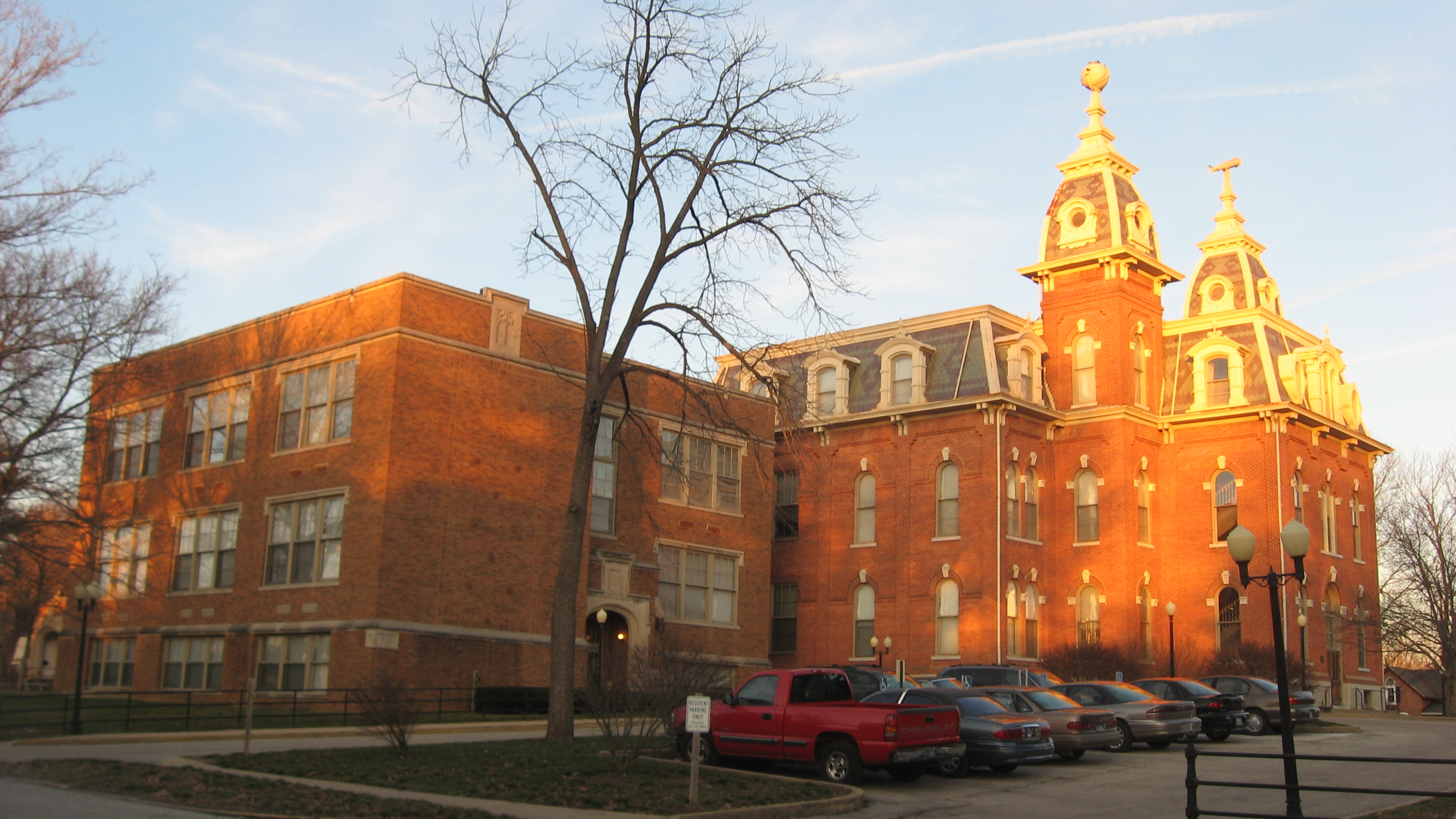 Front of the Knightstown Academy, a former Quaker school located on Carey Street in Knightstown, Indiana, United States. Built in 1876 and since converted to apartments, it is listed on the National Register of Historic Places.